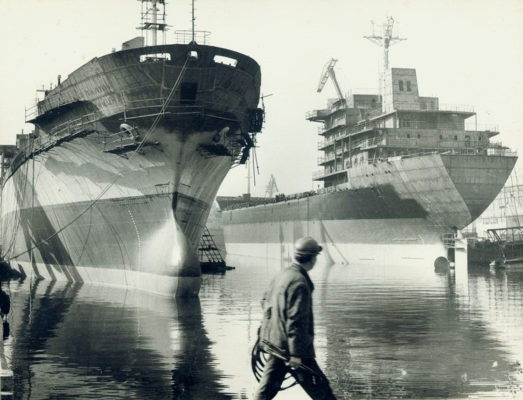 Ship construction at the "Georgi Dimitrov" shipyard in Varna.